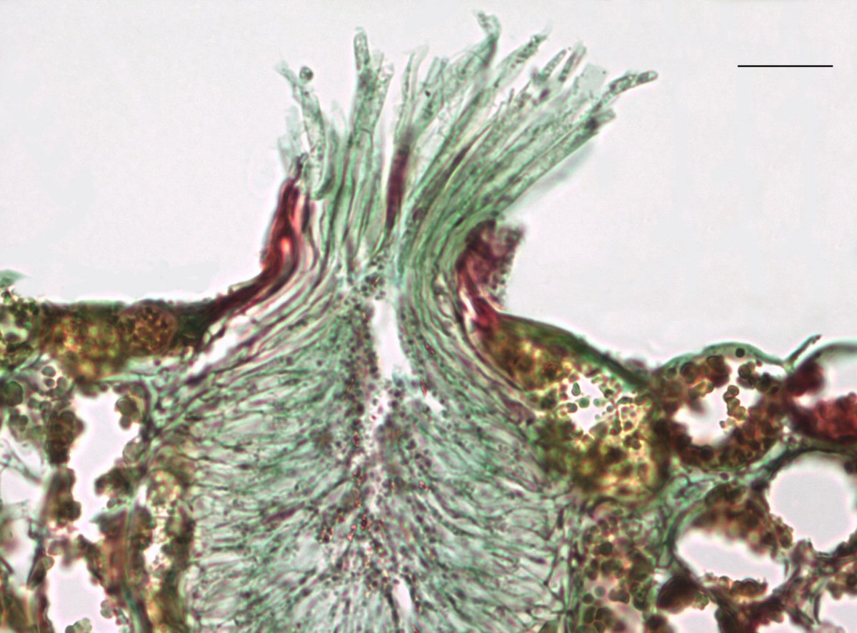 Light microscopy of Puccinia grammis with a pycidium (spermagonium) with spermatia and receptive hyphae. Scale bar = 0.02mm.